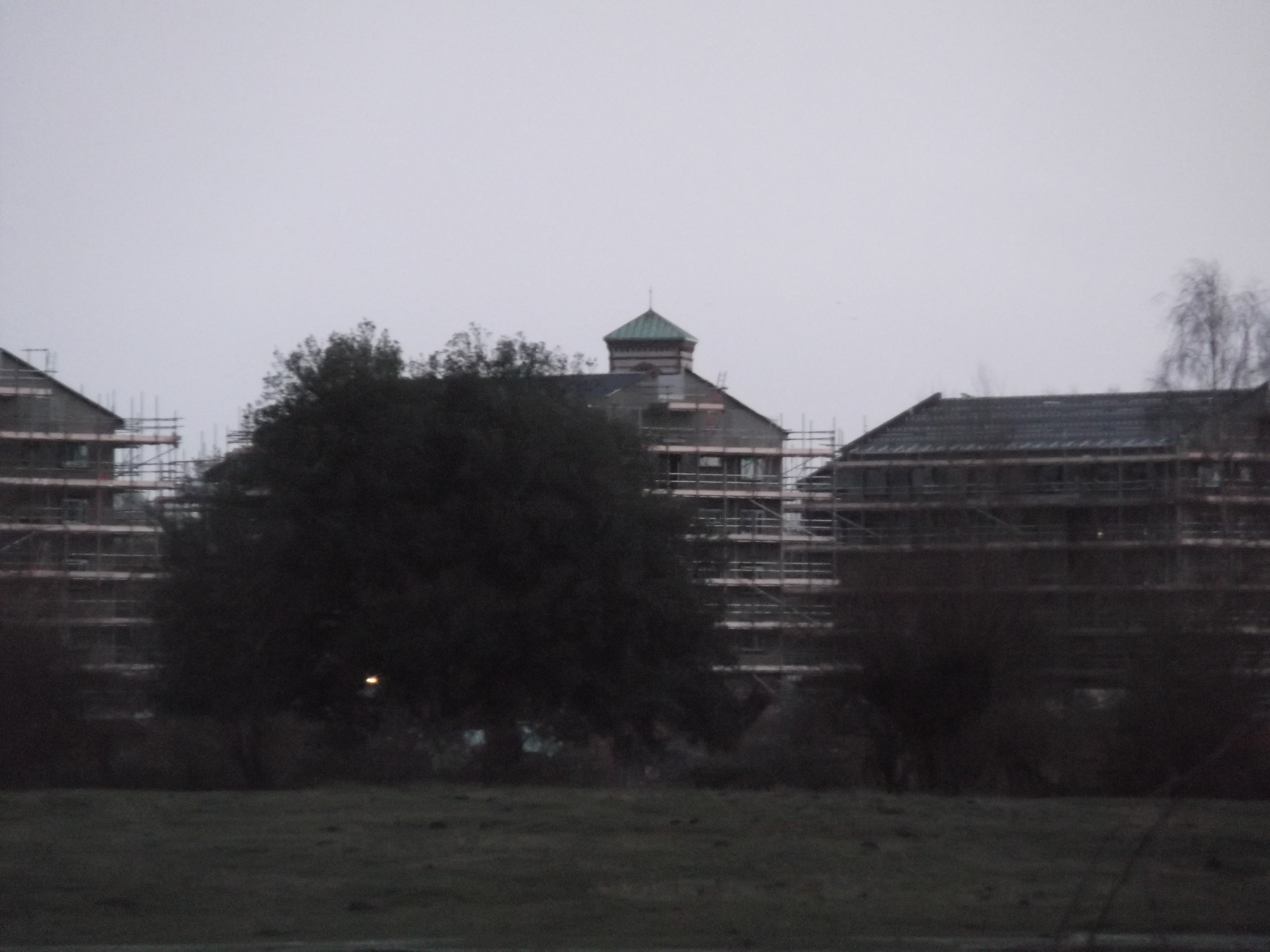 St Barnabas' Church campanile obscured by Castle Mill blocks, new graduate student accommodation of the University of Oxford, from the southern end of Port Meadow in Oxford, England.